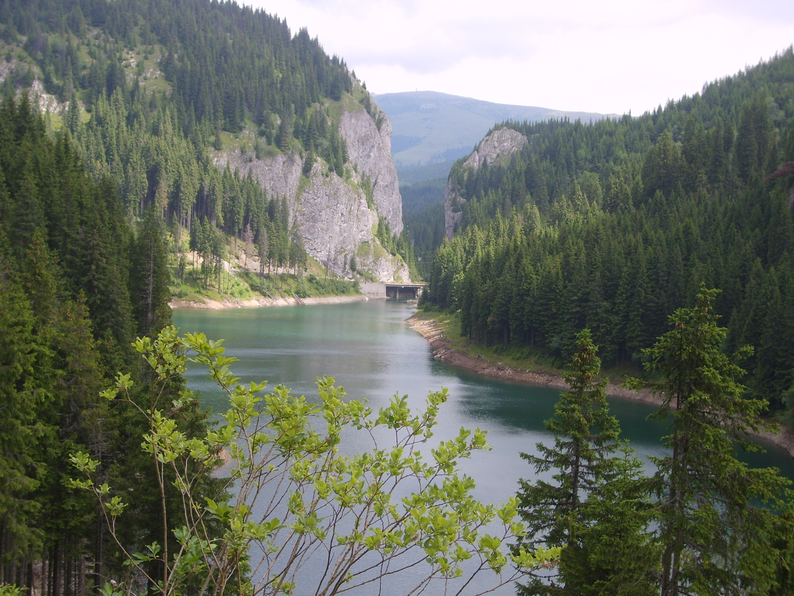 Cheile Tătarului - Bucegi Mountains, Romania